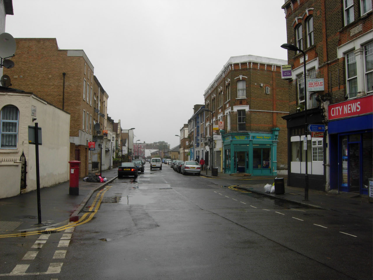 Clarence Road, Lower Clapton, Data from Geograph: Description: Looking along Clarence Road at the junction with Downs Park Road. ICBM: 51.552996395932, -0.056239118011166 Location: (about 1 km from) near to Hackney, Great Britain.